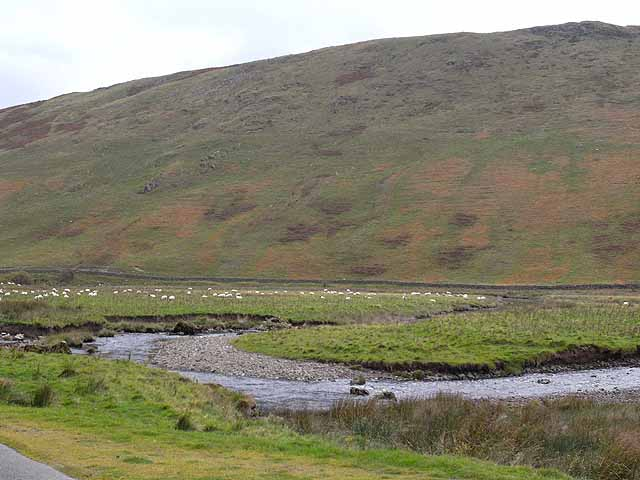 Meander in the Scaur Water Innumerable sheep graze the flat land in the floor of the glen.